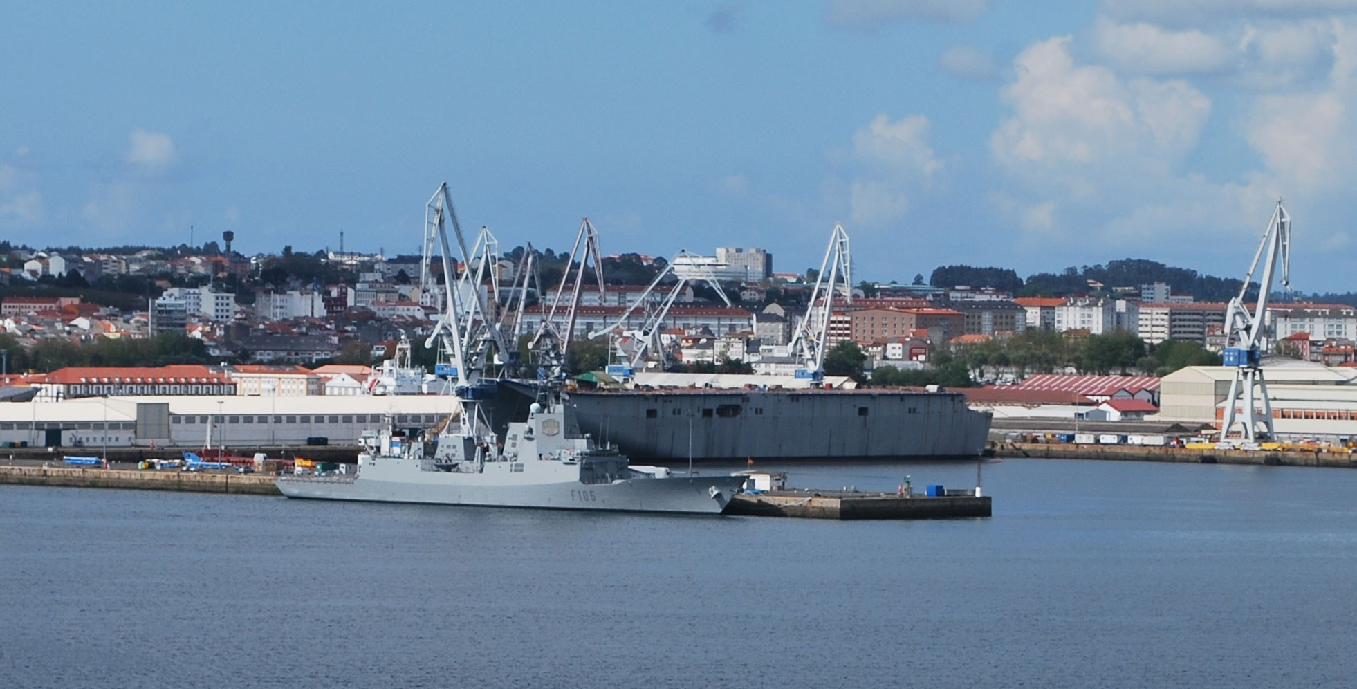 HMAS Adelaide (LHD 01) and Cristobal Colón F-105 in ría de Ferrol A Coruña under construction